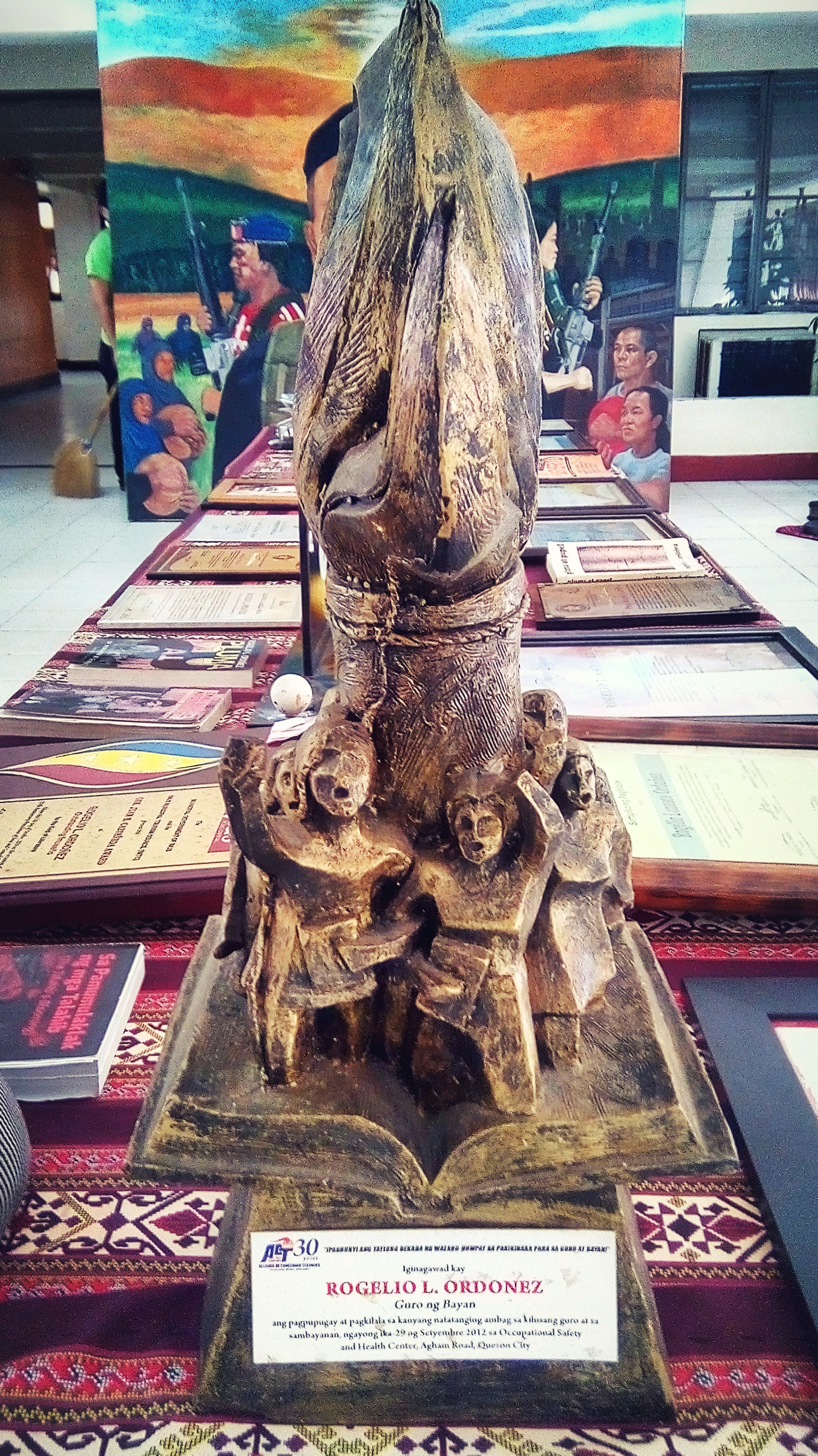 Award from ACT Teacher given to Rogelio Ordoñez.